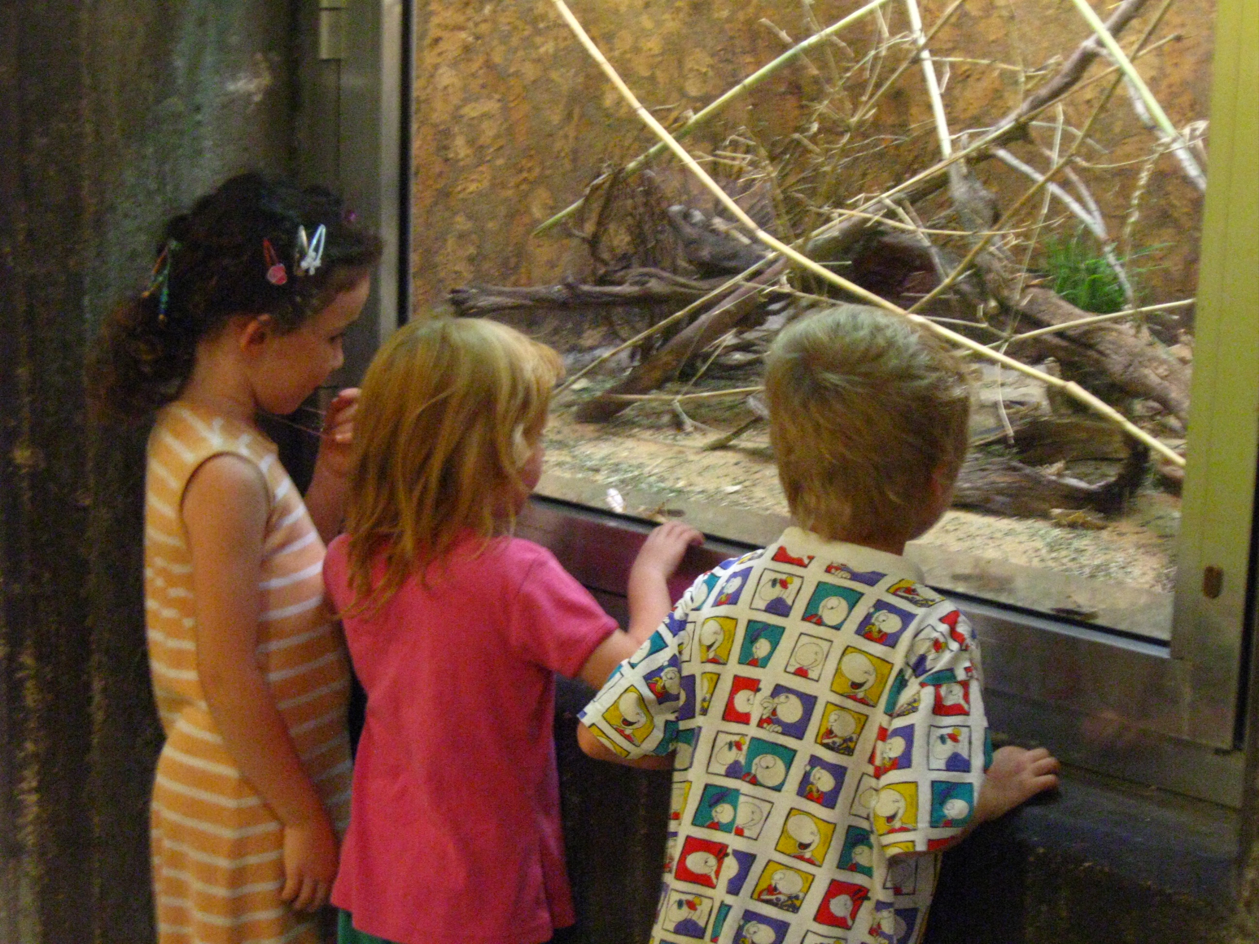 Children view a snake exhibit in the small animals building at the Jerusalem Biblical Zoo.